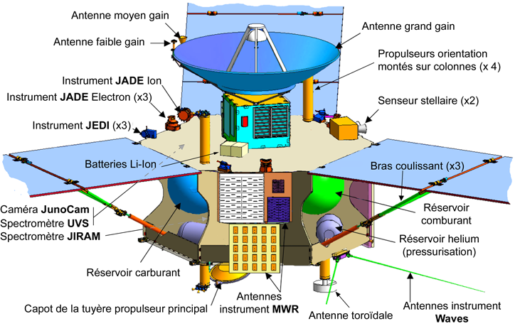 Juno spacecraft exploded view